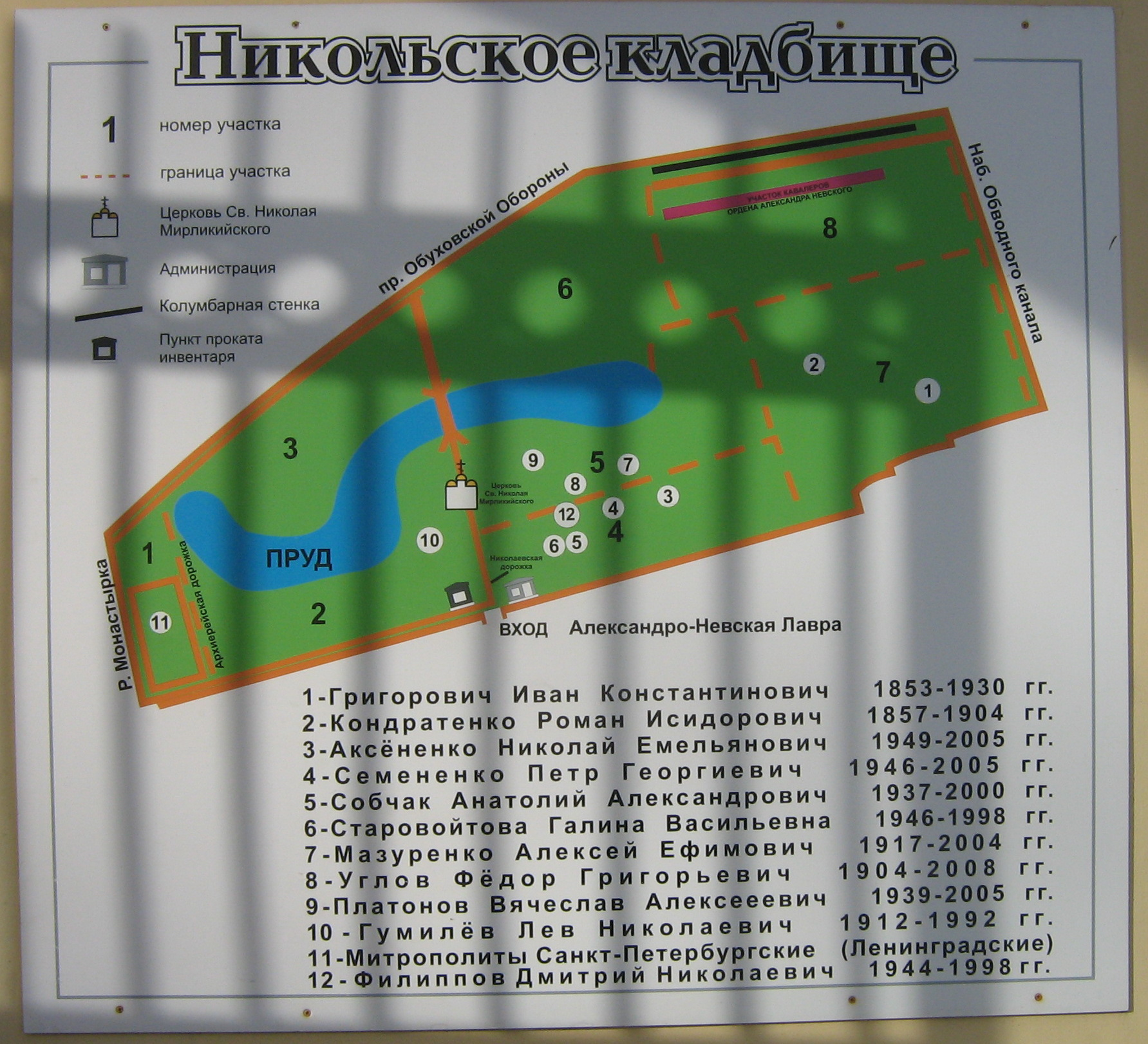 Saint Petersburg (Russia), Alexander Nevsky Lavra